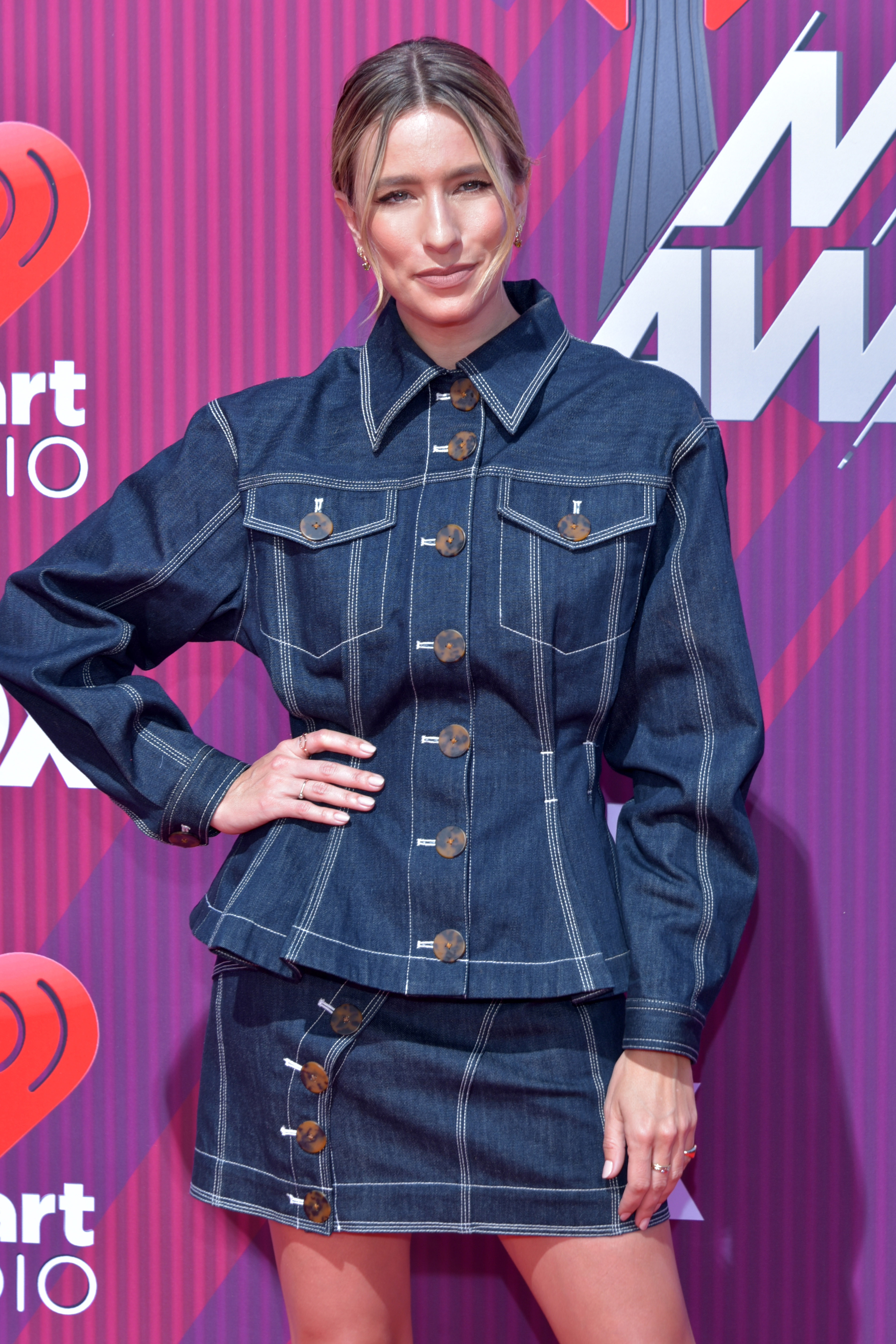 Renee Bargh at the 2019 iHeartRadio Music Awards in Los Angeles California on March 14, 2019 - Photo by Glenn Francis of